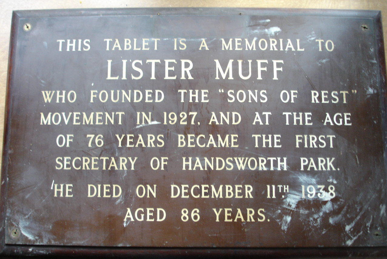 This plaque sat in our garage in Handsworth for 10 years, saved from a derelict ruined Handsworth Park building, and now cleaned up it is on the wall of a restored classroom in the park